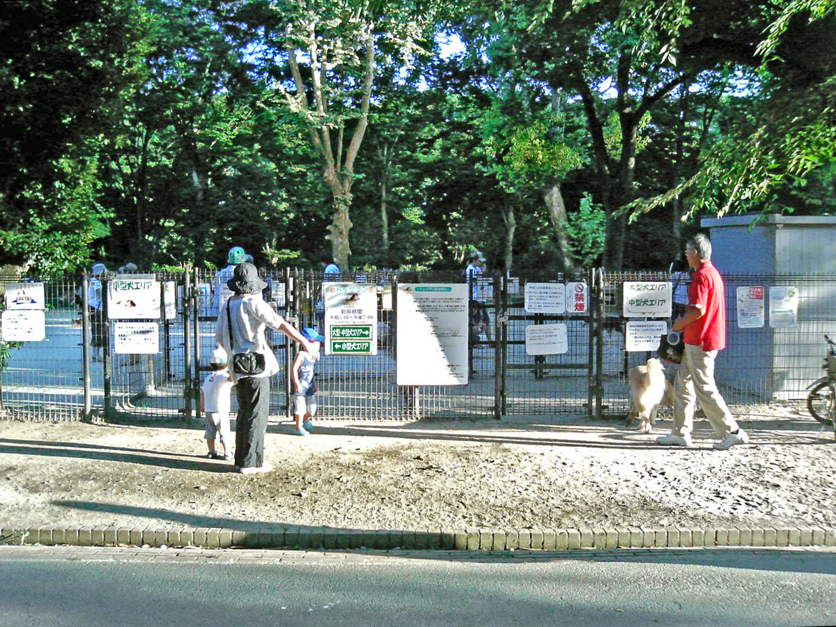 A dog park in Kōkū-kōen Park (Tokorozawa Aviation Commemorative Park), Japan.